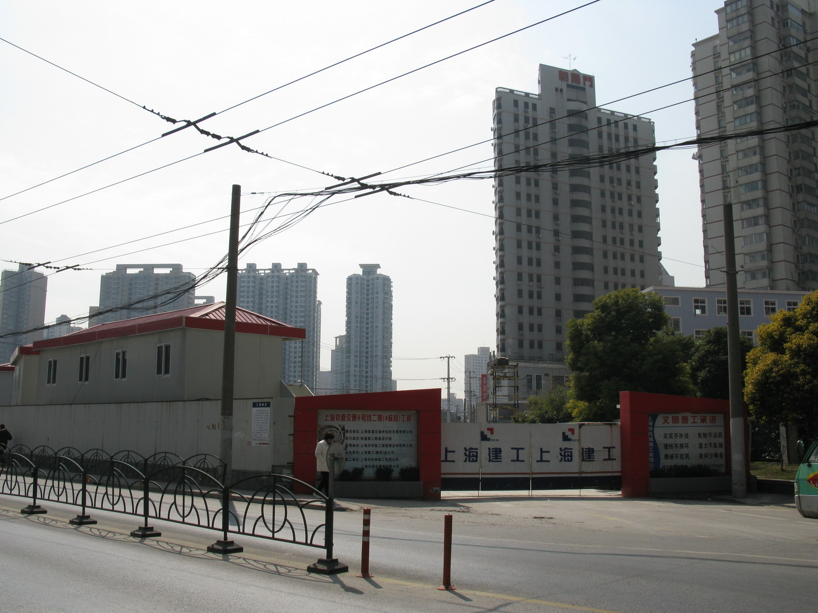 Construction site of Line 9 Xiaonanmen Station